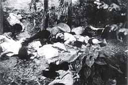 The Phong Nhi villagers killed by South Korean Marines, the Blue Dragons in Phong Nhi village, Quang Nam Province, Vietnam on February 12, 1968.Photo by Corporal J. Vaughn, Delta-2 Platoon, U.S. Marine.[1] [2][3]